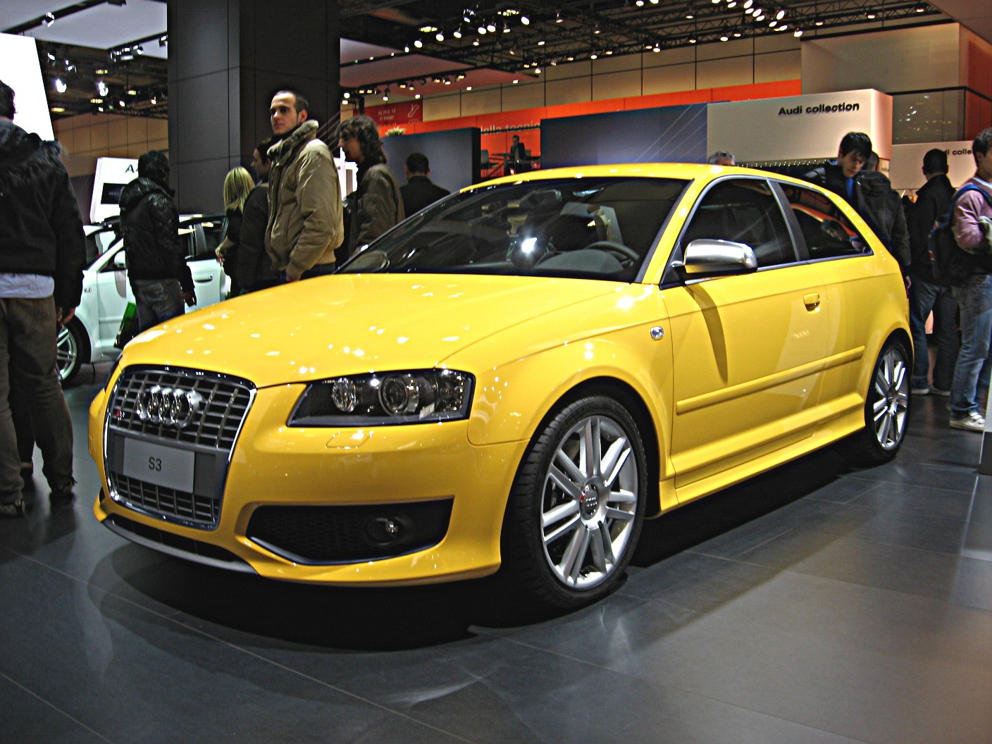 Subject:Audi S3 Author:Luc106 Date:December 13th, 2007 Event:Motor Show Bologna 2007 Place/Country: Bologna, Italy I release all rights in the public domain.